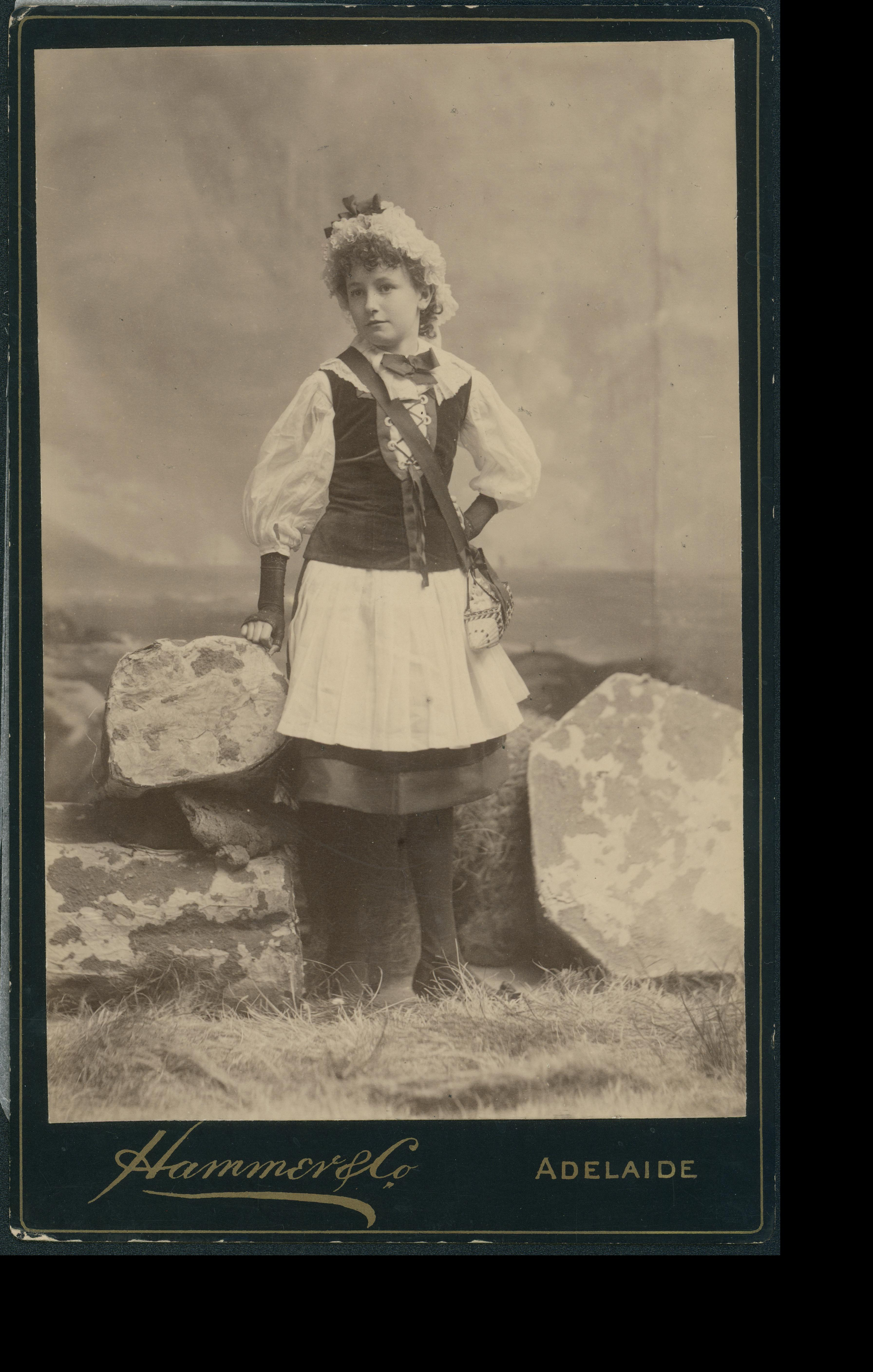 Elsie Bonython aged 13 years old, dressed as a Norwegian fishgirl